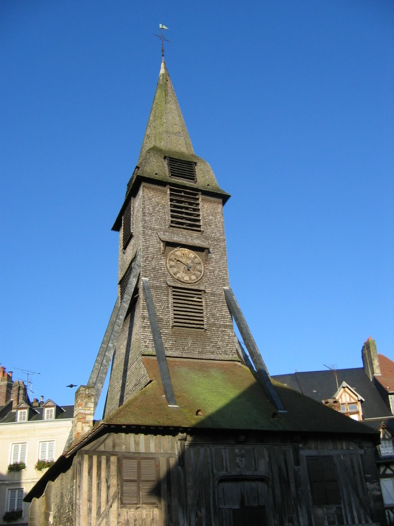 Bell-tower of the Church of Honfleur, Normandy